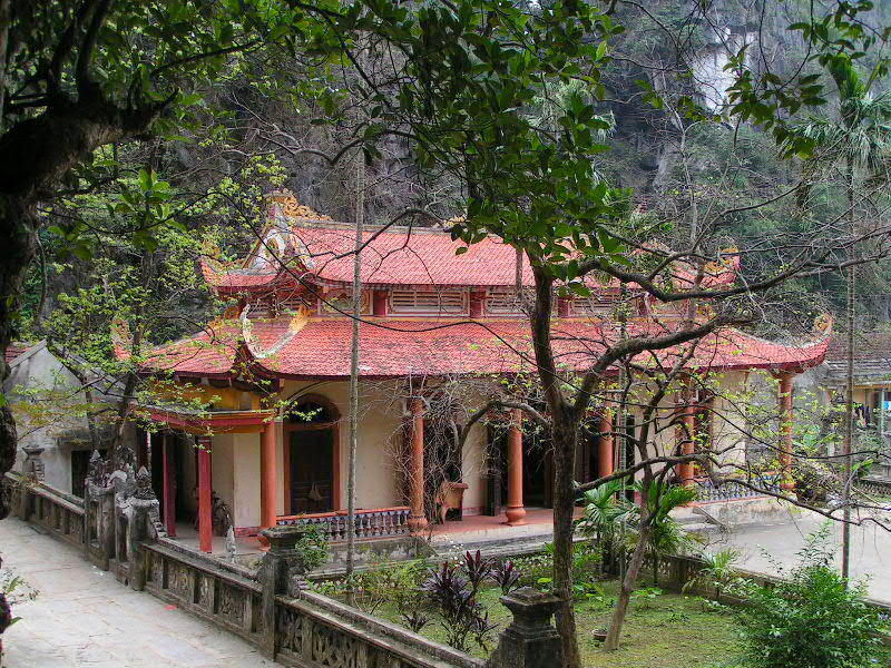 Ha Pagoda, Bich Dong, Ninh Binh Province, Vietnam.